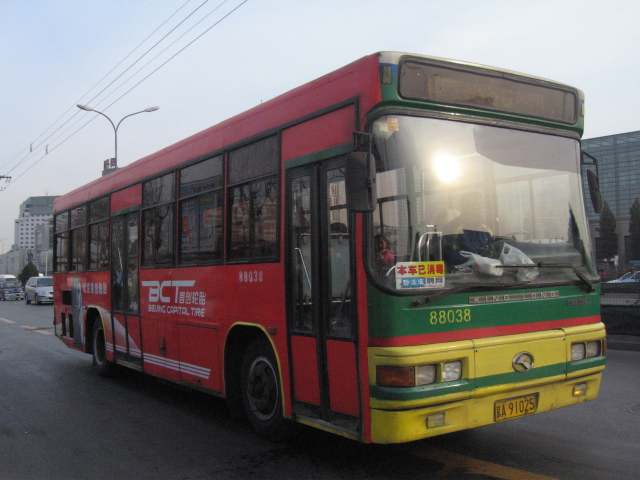 A King Long XMQ6100SL...built in circa 1999.